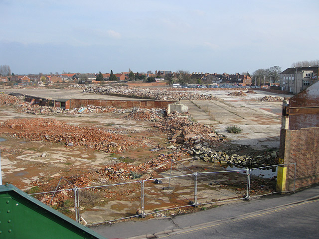 Razed to the ground, Beverley, East Riding of Yorkshire, England.The Clariant factory and Museum of Army Transport in Flemingate, Beverley, are now reduced to piles of bricks and rubble. A consortium of developers hope to bring new life to this part of the town, which lies east of the railway line by building a range of shops, restaurants, offices, a hotel, cinema, homes and a new East Riding College. The closure of the Clariant factory marks the end of the last large-scale industrial business in Beverley. Viewed from the railway footbridge.